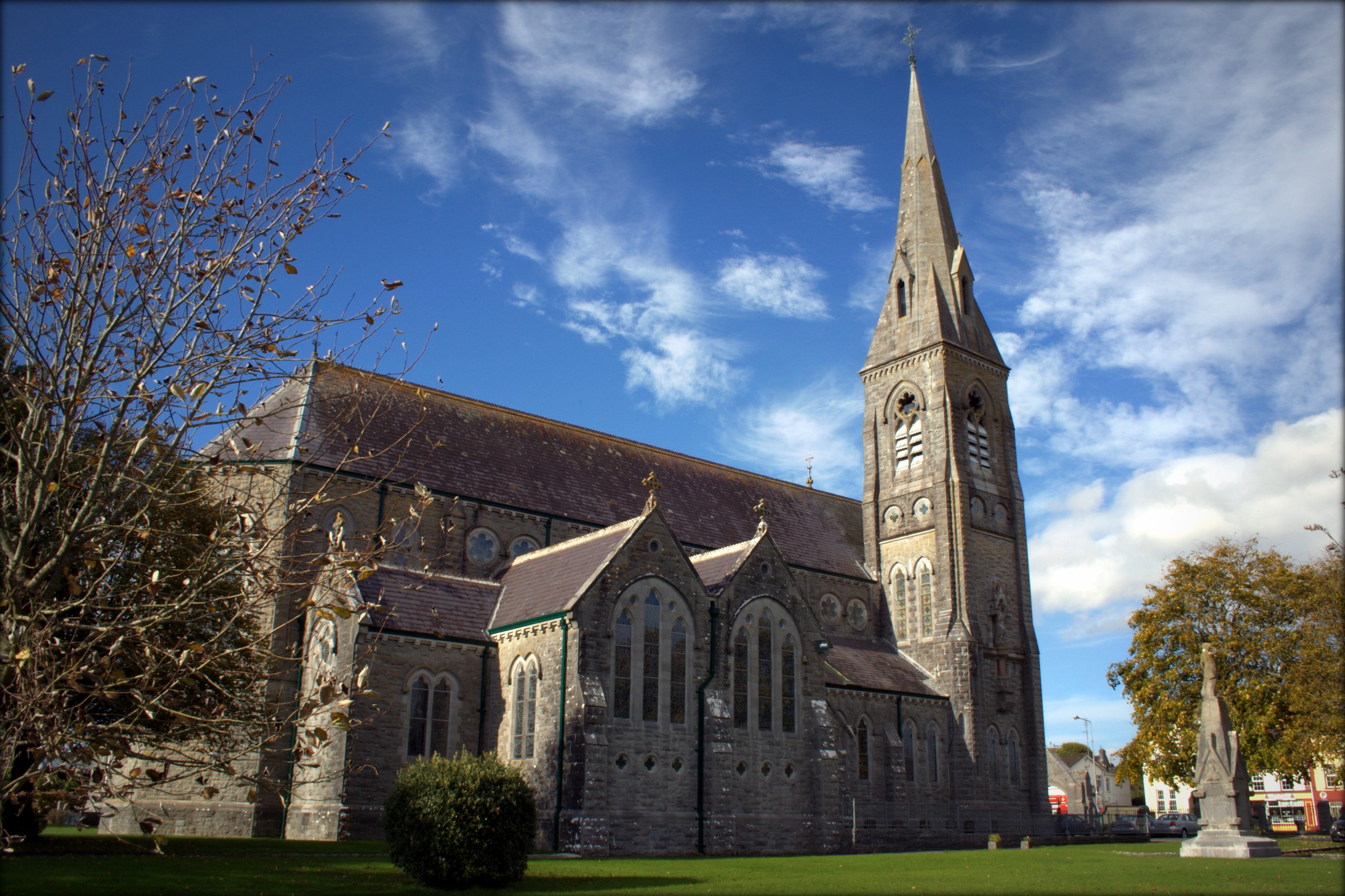 St Brendan's cathedral, Loughrea